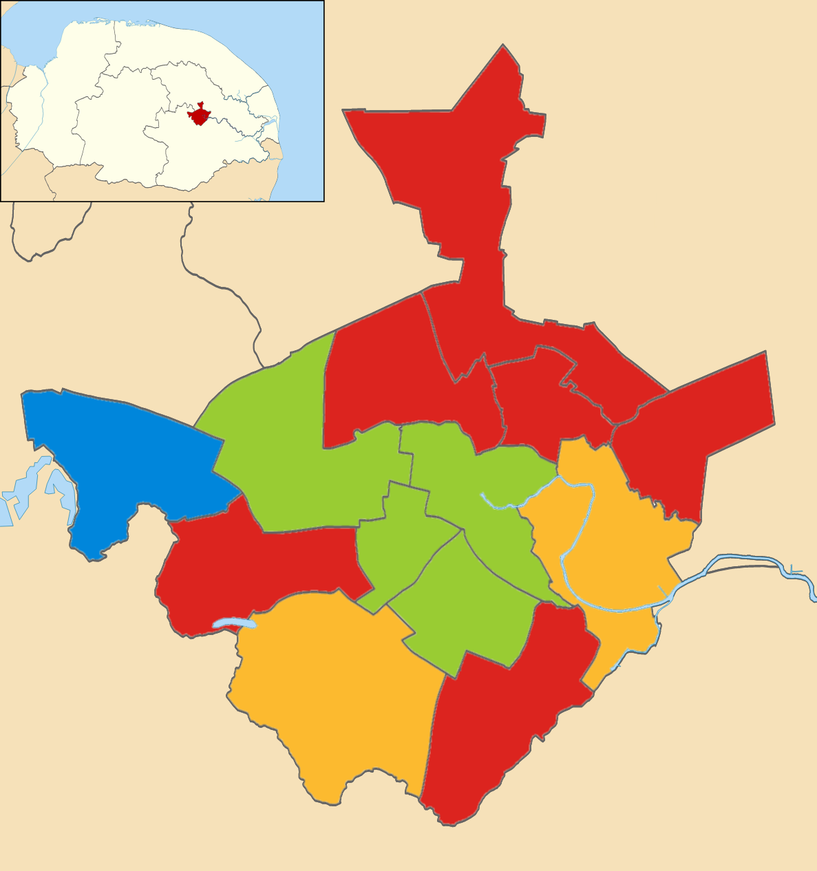 Results of the 2006 local elections in Norwich Colours: Conservative Labour Liberal Democrat Green Party